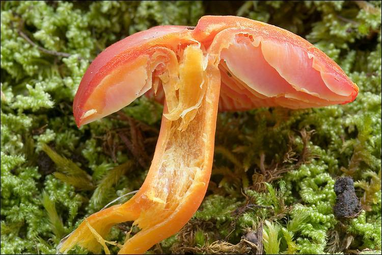 Hygrocybe coccinea (Schaeff.) P. Kumm. Location: Idrijsko, Vojsko Flats, Slovenia Observation Notes: Code: Bot_462/2010_IMG2580 Habitat: In grass, unmaintained mountain pasture, flat terrain, calcareous ground, full sun, exposed to direct rain, average precipitations 2.000-2.600 mm/year, average temperature 6-8 deg C, elevations 1.050 m (3,450 feet), Dinaric phytogeographical region. Substratum: soil Place: Vojsko flats, southeast of Smodin farm house, Idrijsko, Slovenia EC For more information about this, see the observation page at Mushroom Observer.